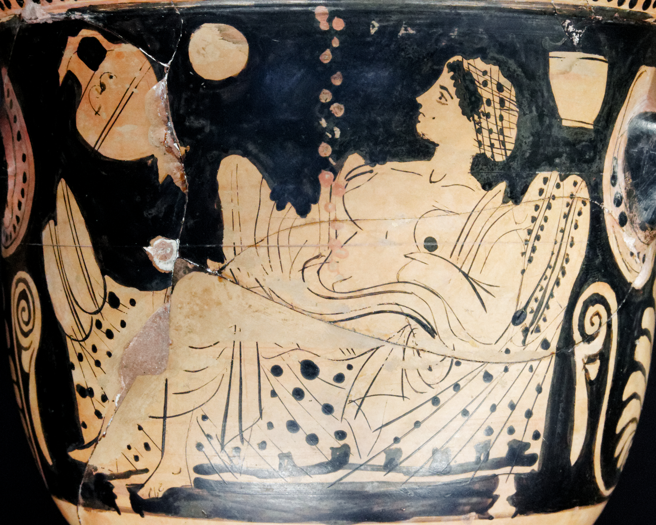 Danaë and the shower of gold. Side A from a Boeotian red-figure bell-shaped crater.